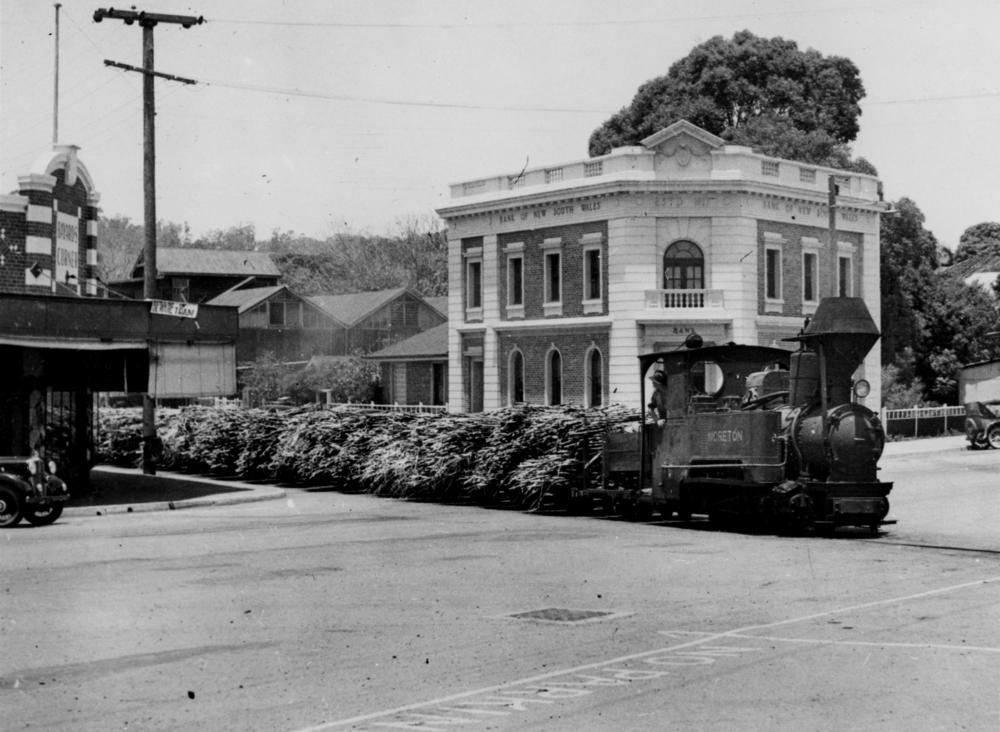 Sugar tram travelling along Currie Street, Nambour, ca. 1939 Sugar tram, powered by the steam engine 'Moreton', loaded with cut sugar cane. It is travelling along Currie Street, Nambour, in front of the Bank of New South Wales building around 1939.